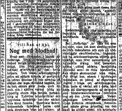 "Nog med blodbad!" letter to the editor by Hjalmar Linder in Hufvudstadsbladet, criticizing violence against the Reds after the Finnish civil war.